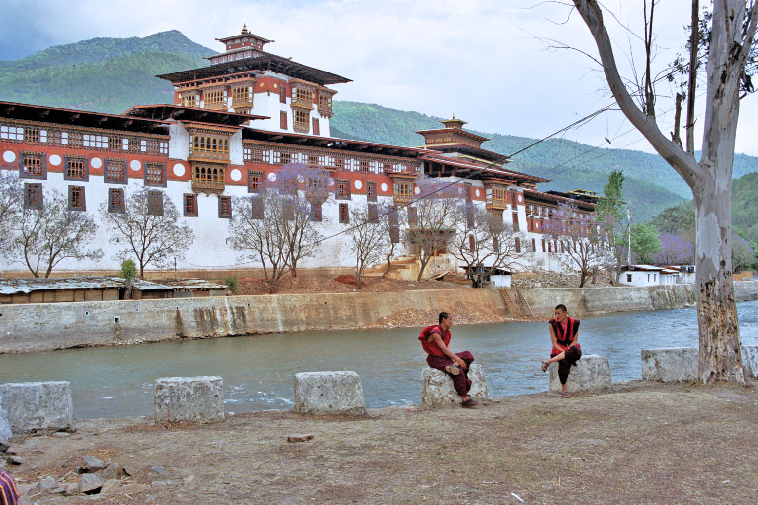 Punakha Dzong, Bhutan. Photo taken April 22, 2002. Monks in foreground with the southern portion of the dzong visible across the Mo Chhu. Copyright (c) 2002 by William L. Devanney.